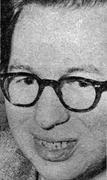 Swedish psychiatrist Nils Bejerot (1921-1988)